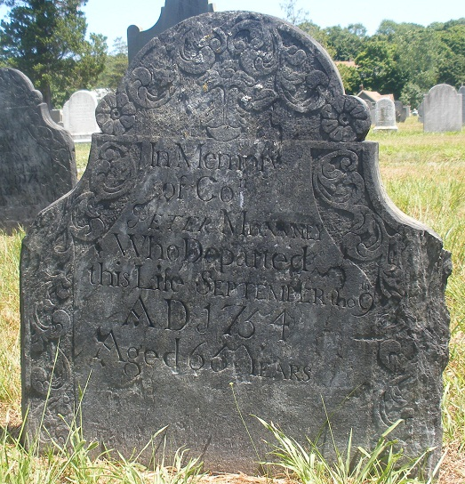 Grave marker for Colonel Peter Mawney, Rhode Island Militia, North Burial Ground, Providence